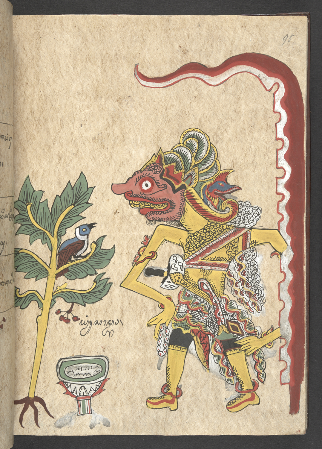 the 9th wuku, Julung Wangi from a Pawukon from Yogyakarta, 1807. British Library